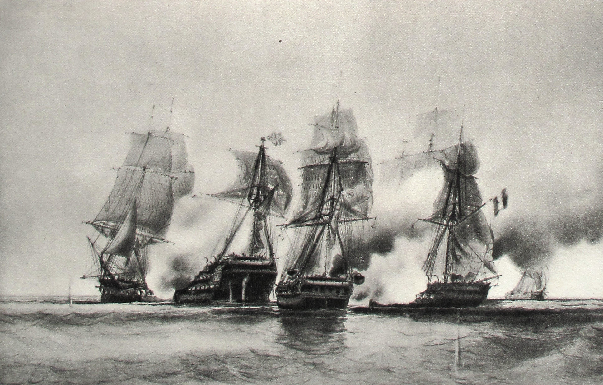 French frigate Cybèle and Prudente battling HMS Centurion and HMS Diomede